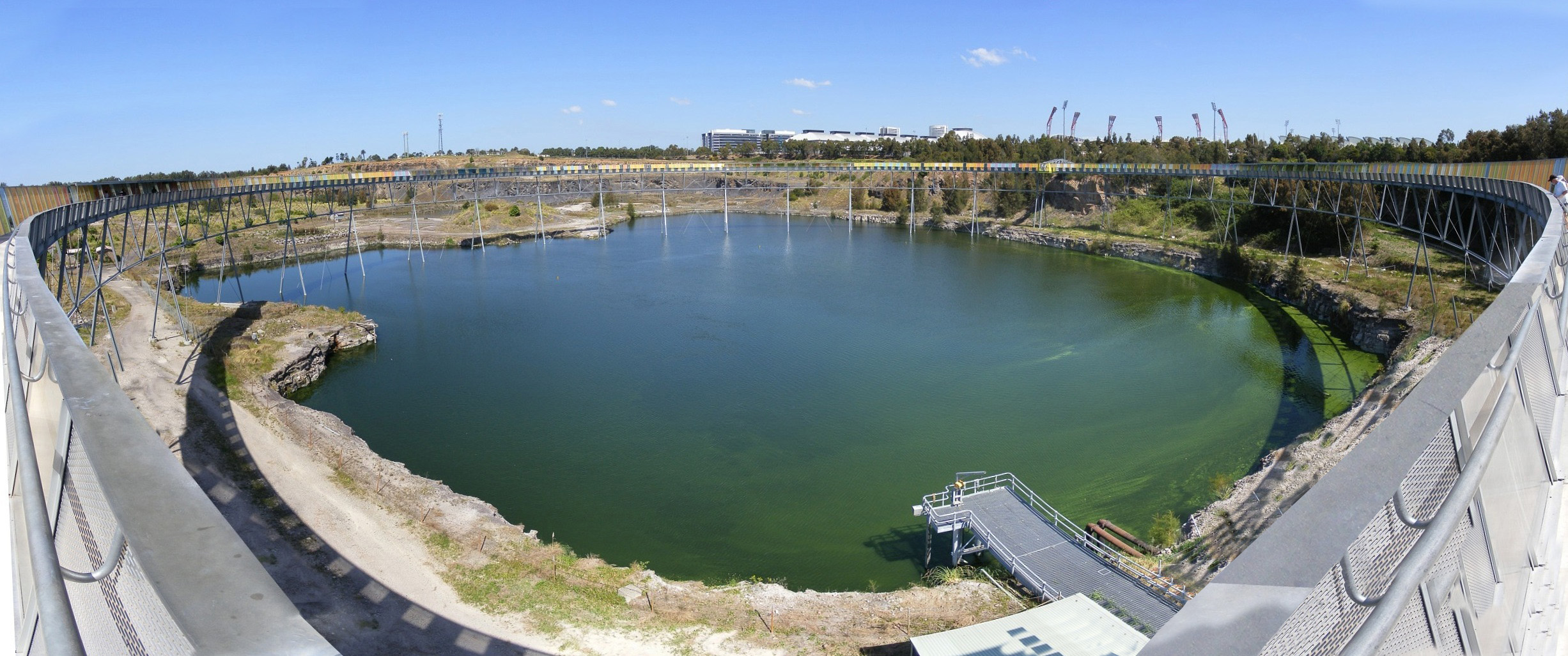 The ring walk at HB Bay